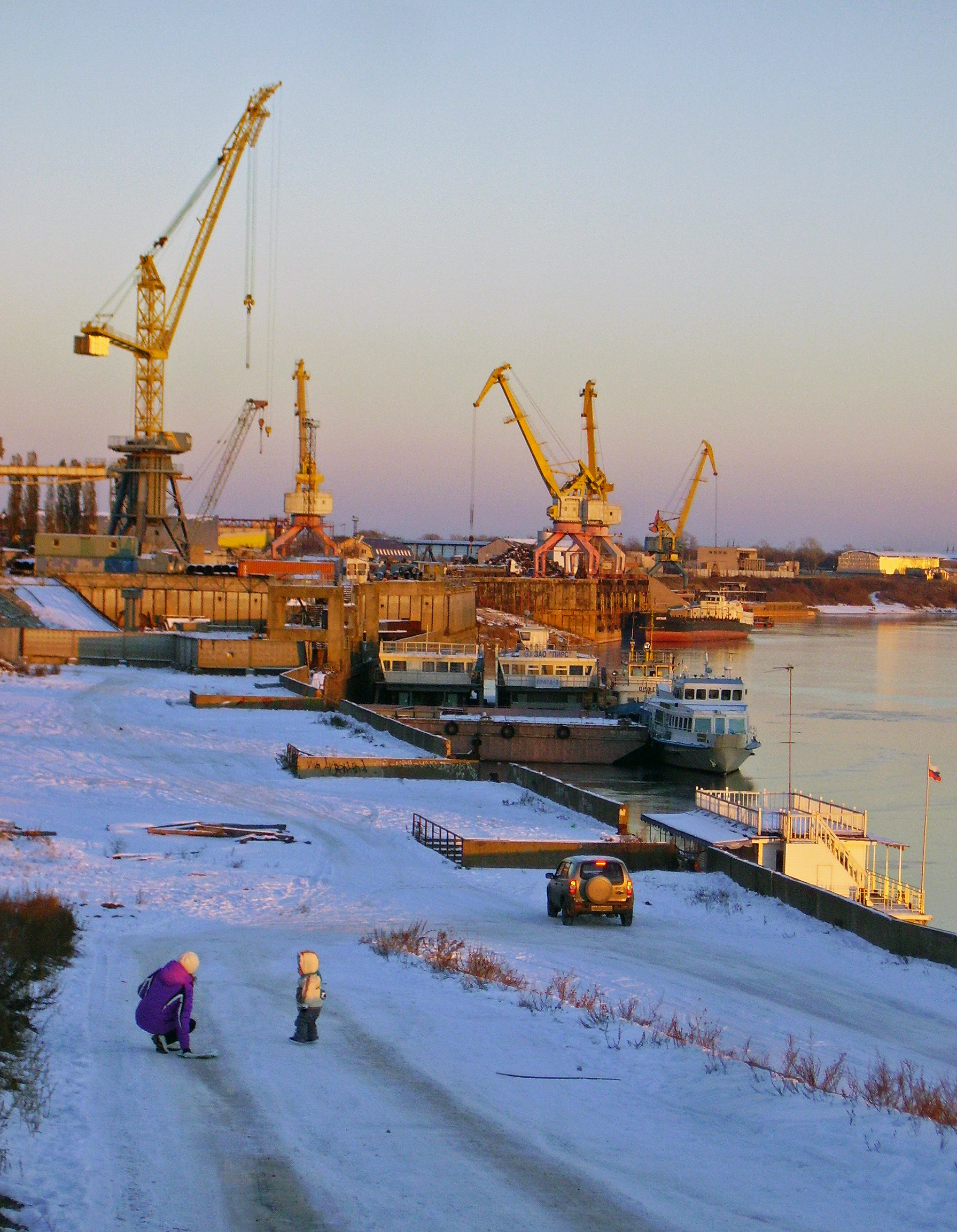 Dzerzhinsk. View to City Port at Oka river.